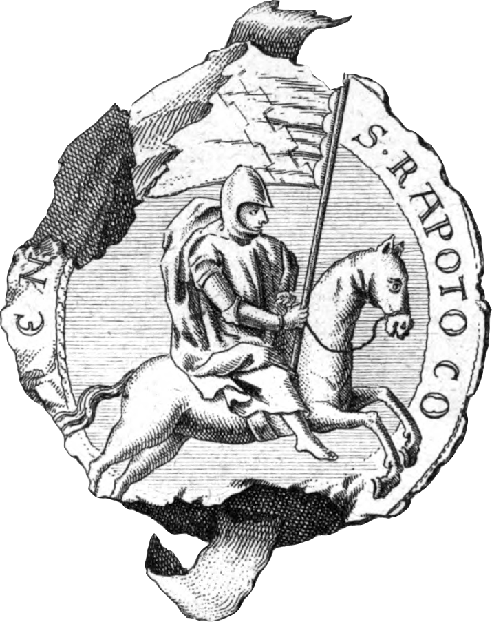 Seal of count Rapoto II of Ortenburg of 1190